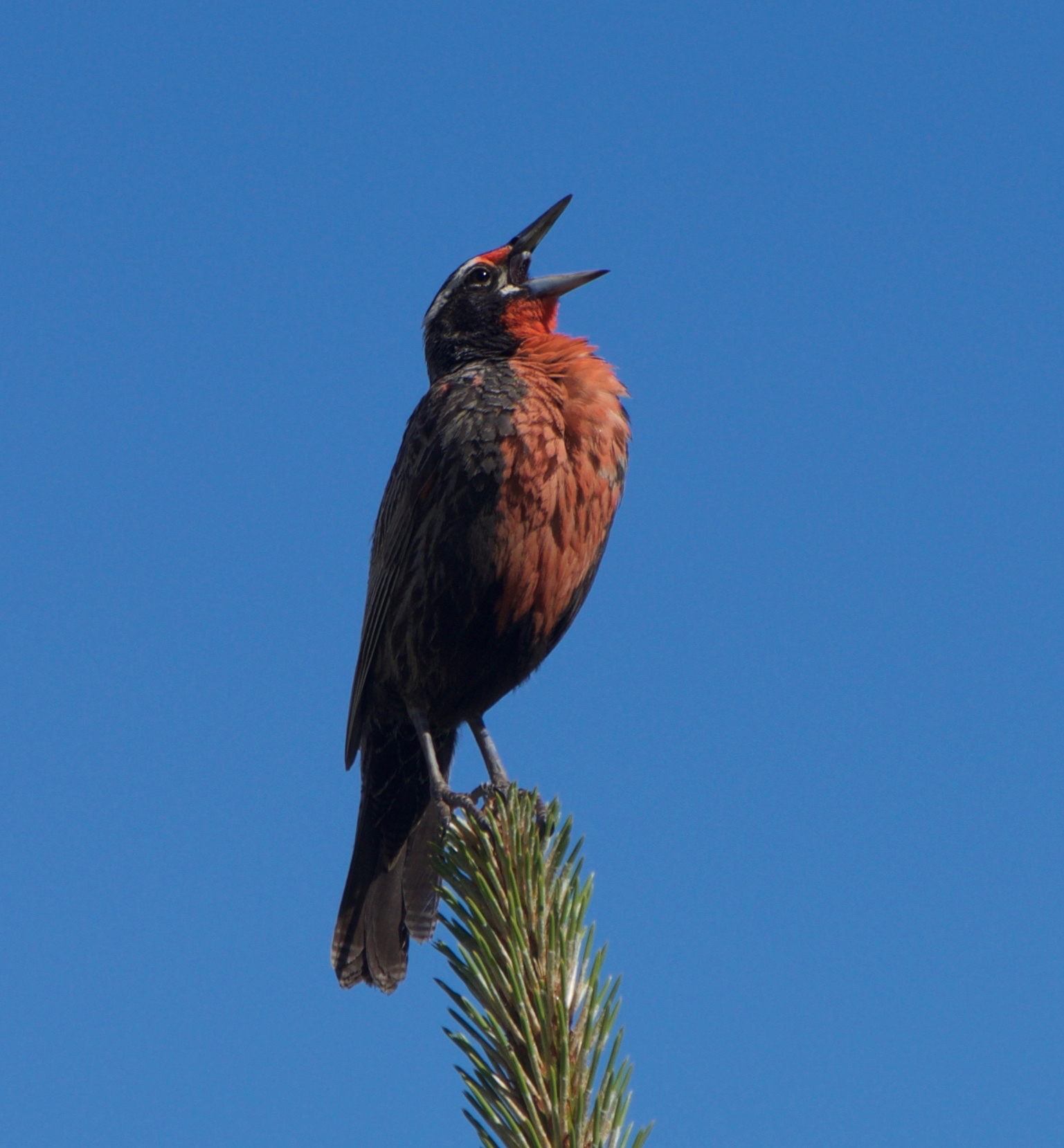 Sturnella Loyca in El Chaltén, Argentina